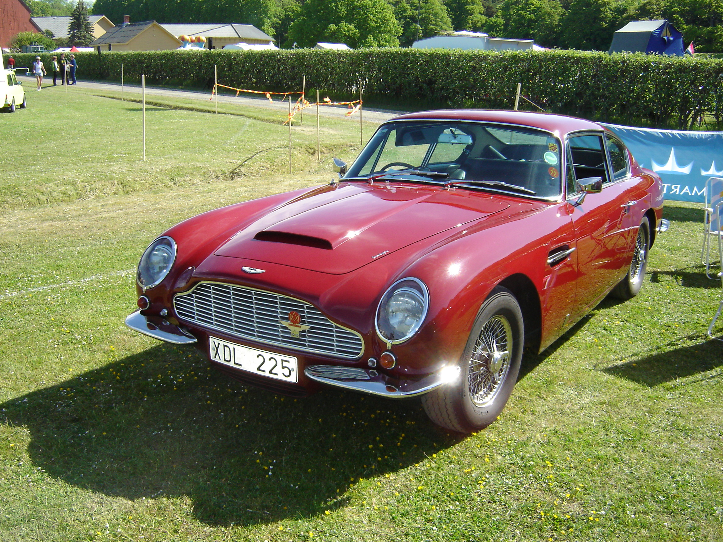 Aston Martin DB6